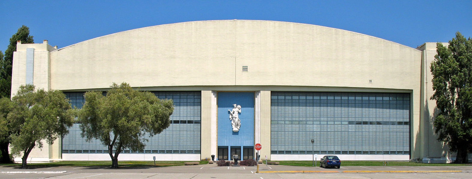 Hall of Transportation of the Golden Gate International Exposition (1938-39). On SE Side of California Ave. between Avenue D and Avenue F, Treasure Island, San Francisco, California, USA. Photographed 2008-06-21 from the parking lot to the west of the building. Registered Historic Places in San Francisco, California.